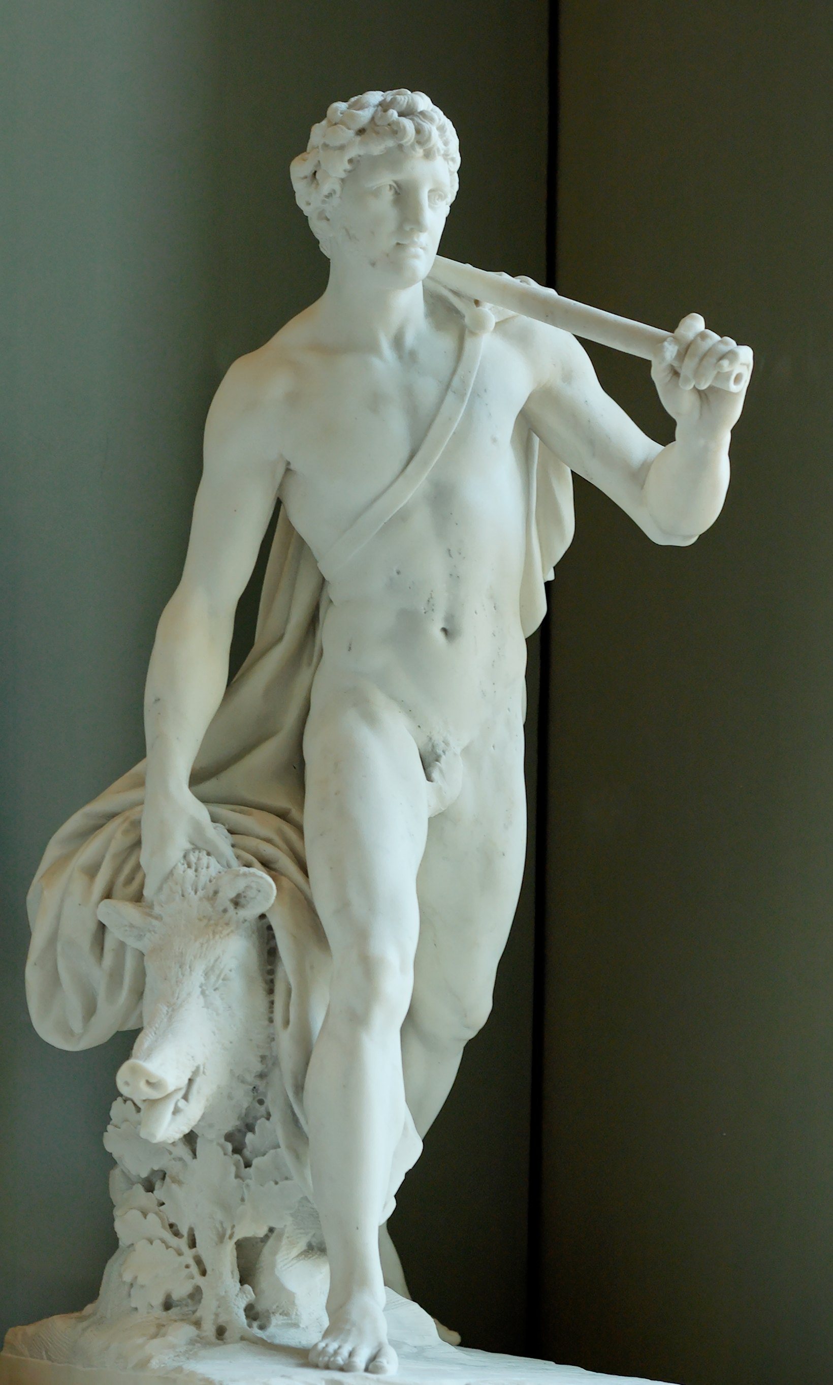 Méléagre (Meleager), reception piece for the French Royal Academy.